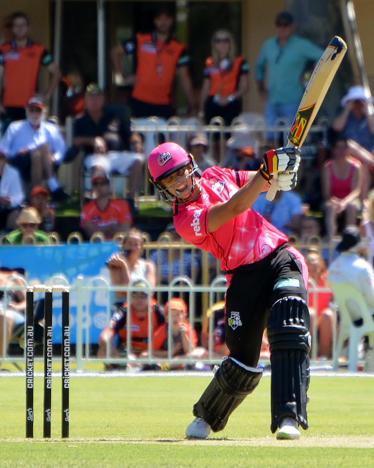 Sydney Sixers all-rounder Ashleigh Gardner batting against the Perth Scorchers, in a WBBL match at Lilac Hill Park in Perth